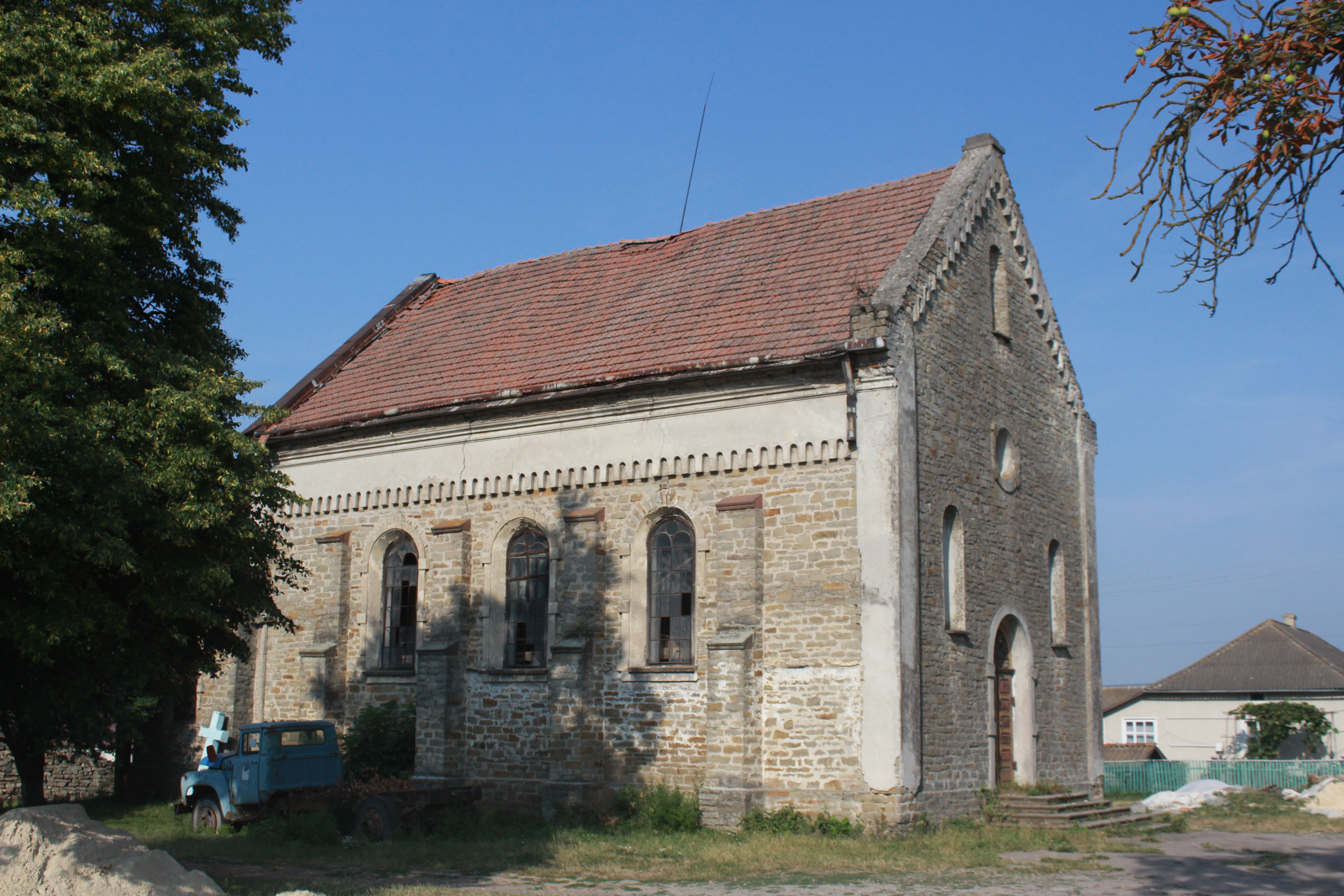 Костел